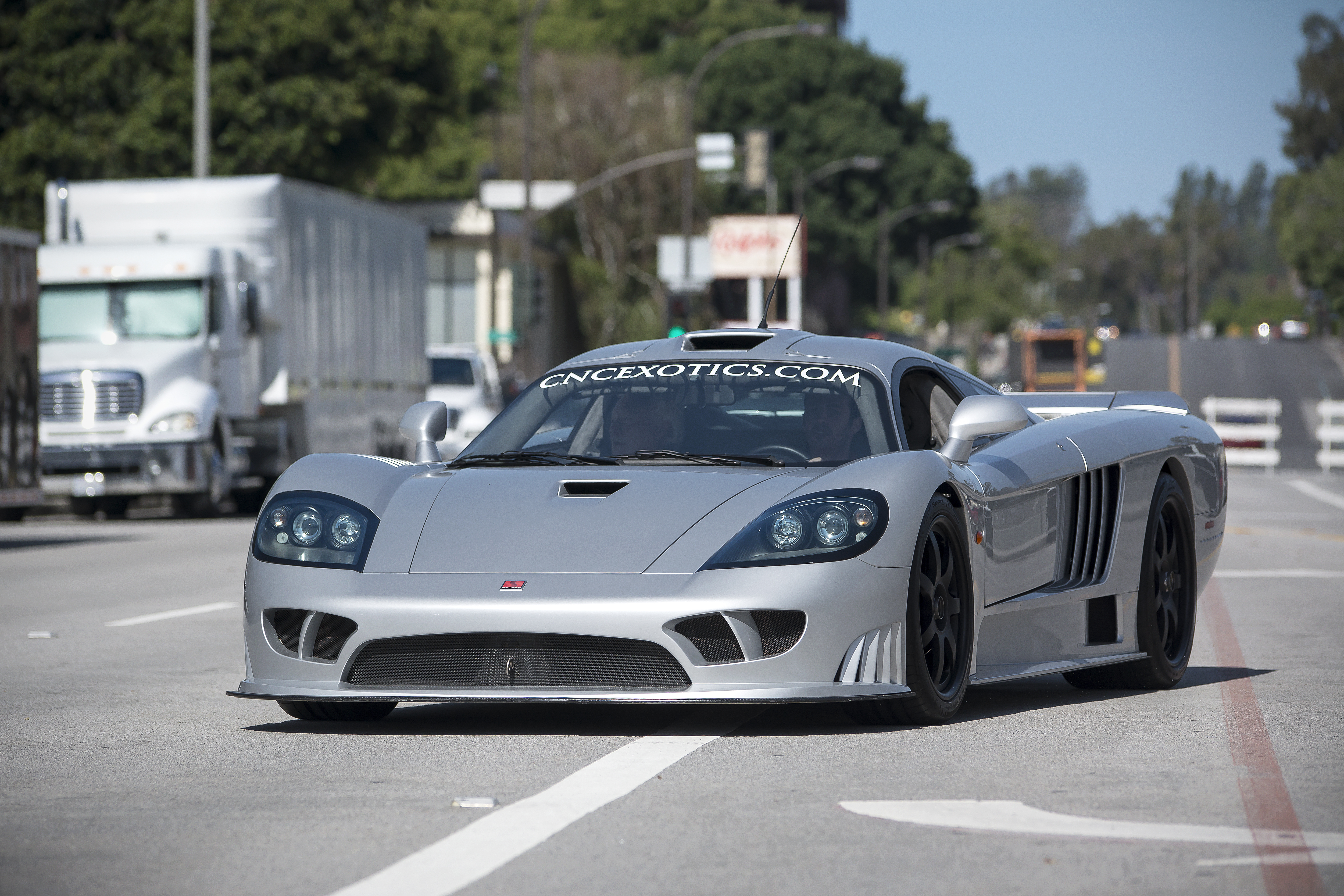 Paul Walker's old 2003 Silver Saleen S7. Now for sale by CNC Motors.